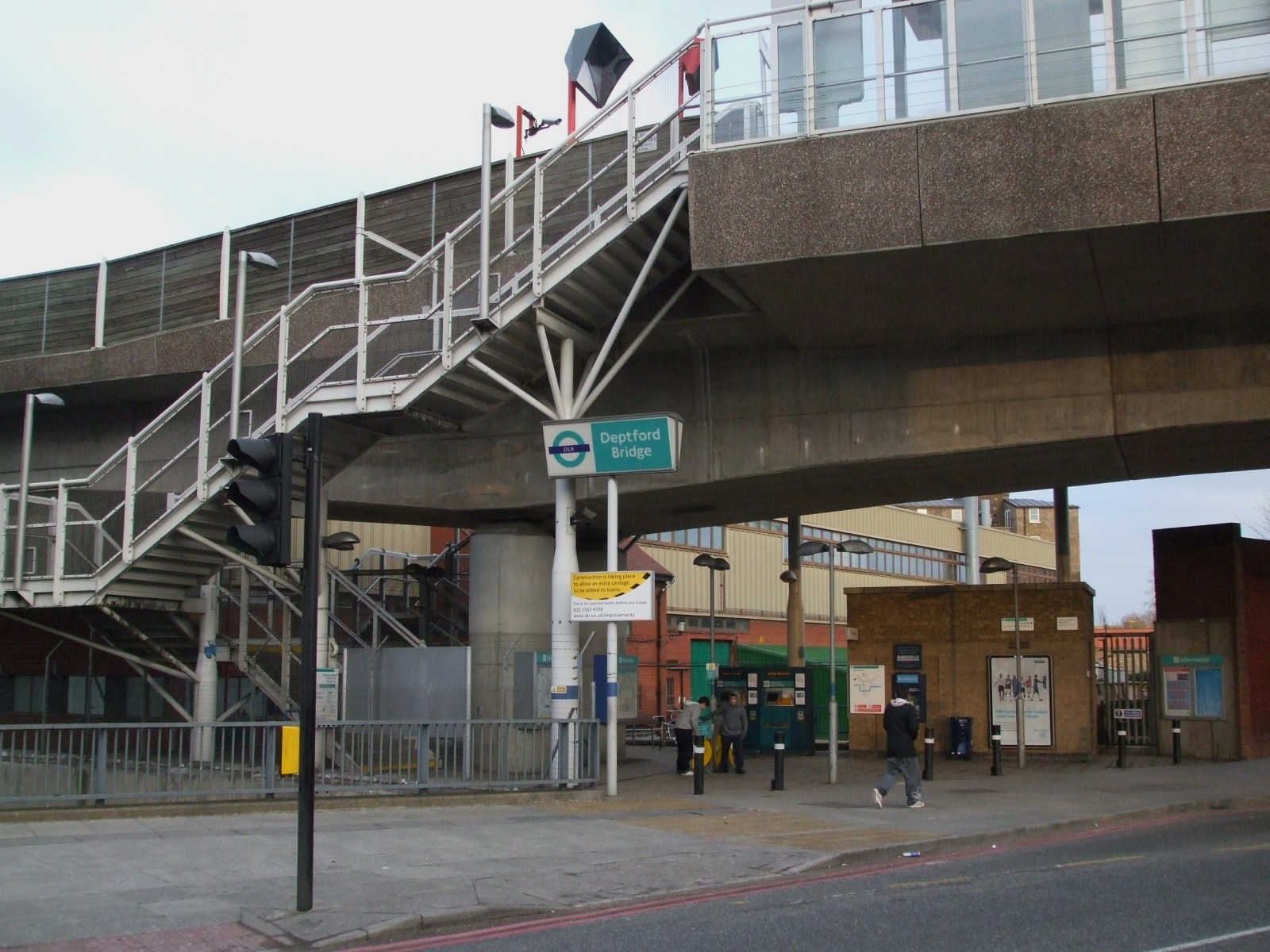 Deptford Bridge DLR station northern entrance, looking eastwards.